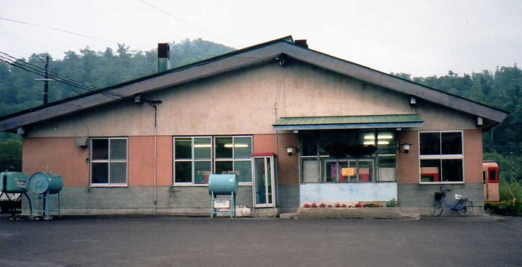 Shumarinai Sta.